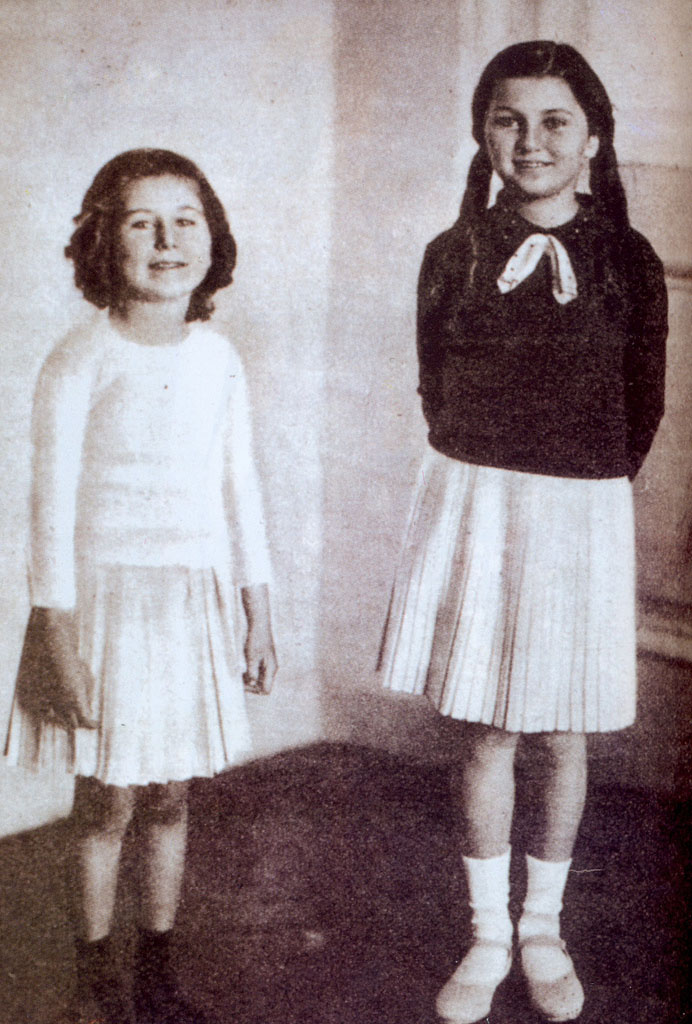 Princess Fathia (1930–1976), left, and Princess Faika (1926–1983), right, daughters of King Fouad I of Egypt and his second wife Nazli Sabri. This image was published in Al-Musawwar magazine, where a caption credits Riad Shehata as the photographer (see here for a copy of the magazine page, and here for the Bibliotheca Alexandrina's description page).